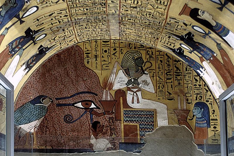 Rear wall in the tomb of Pashedu, TT 3, Deir el-Medina, Luxor West Bank, Egypt